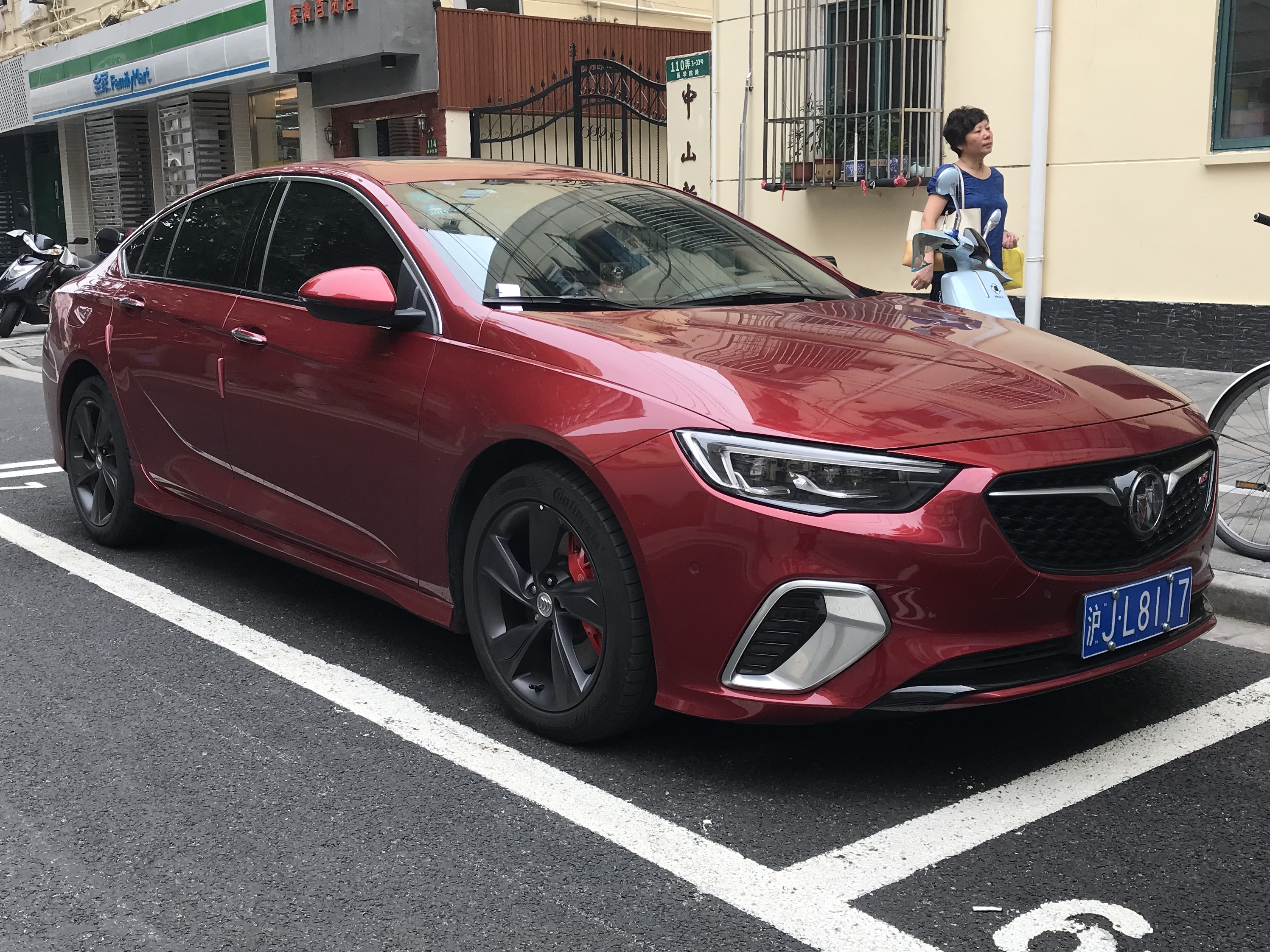 Buick Regal II GS